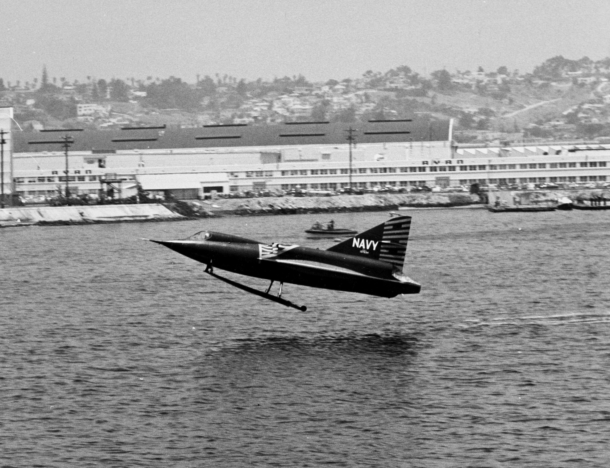 A U.S. Navy Convair built XF2Y-1 Sea Dart (BuNo 135762) taking off during an early test flight. On 4 November 1954, 135762 disintegrated in mid-air over San Diego Bay, California (USA), during a demonstration for Navy officials and the press, killing Convair test pilot Charles E. Richbourg when he inadvertently exceeded the airframe limitations.